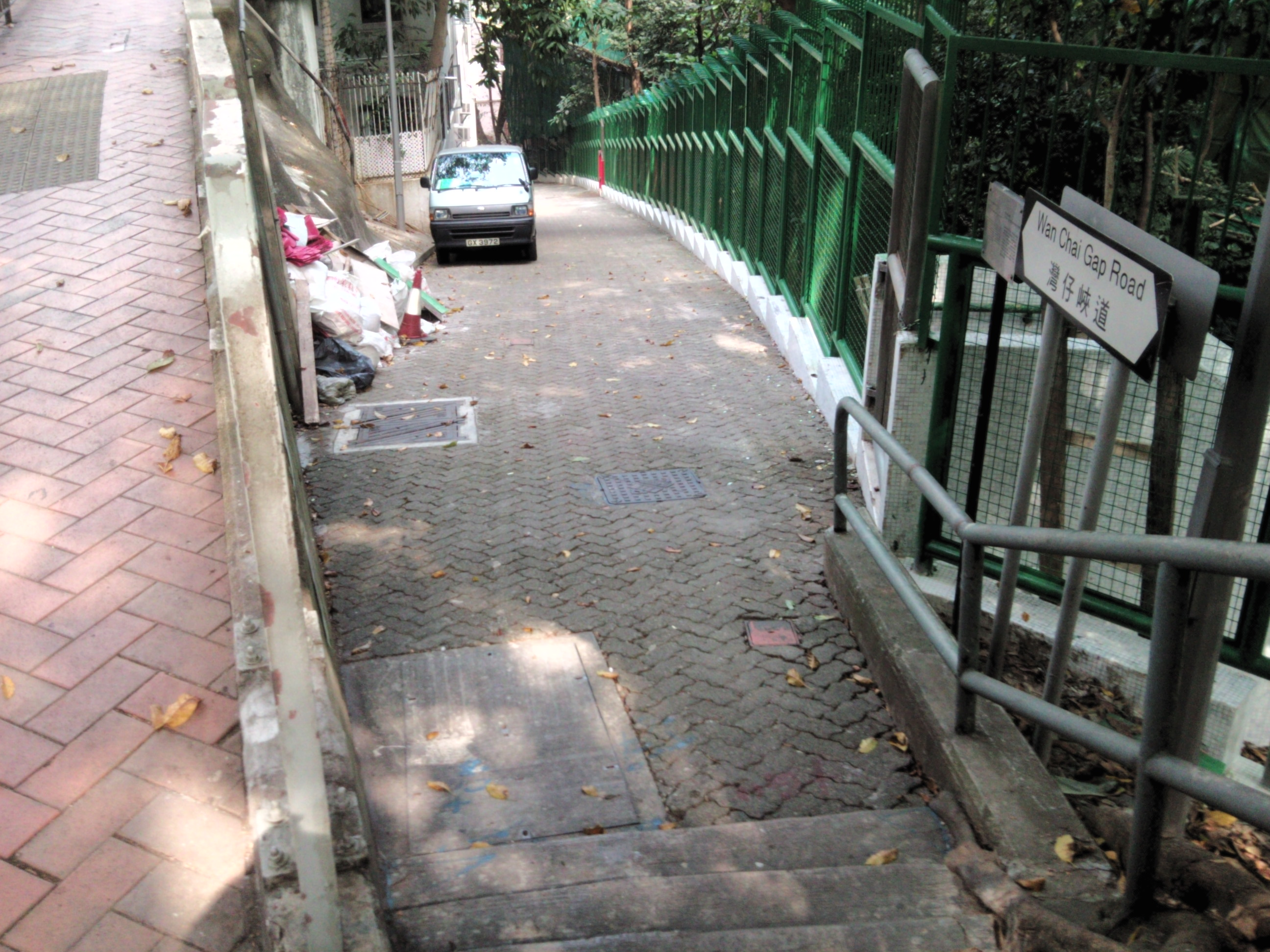 Wan Chai Gap Road near Kennedy Road (North) in Hong Kong